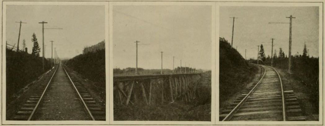 Everett–Snohomish Interurban Line, straight track and pole construction, double deck trestle 70 ft. high and typical curce and overhead work